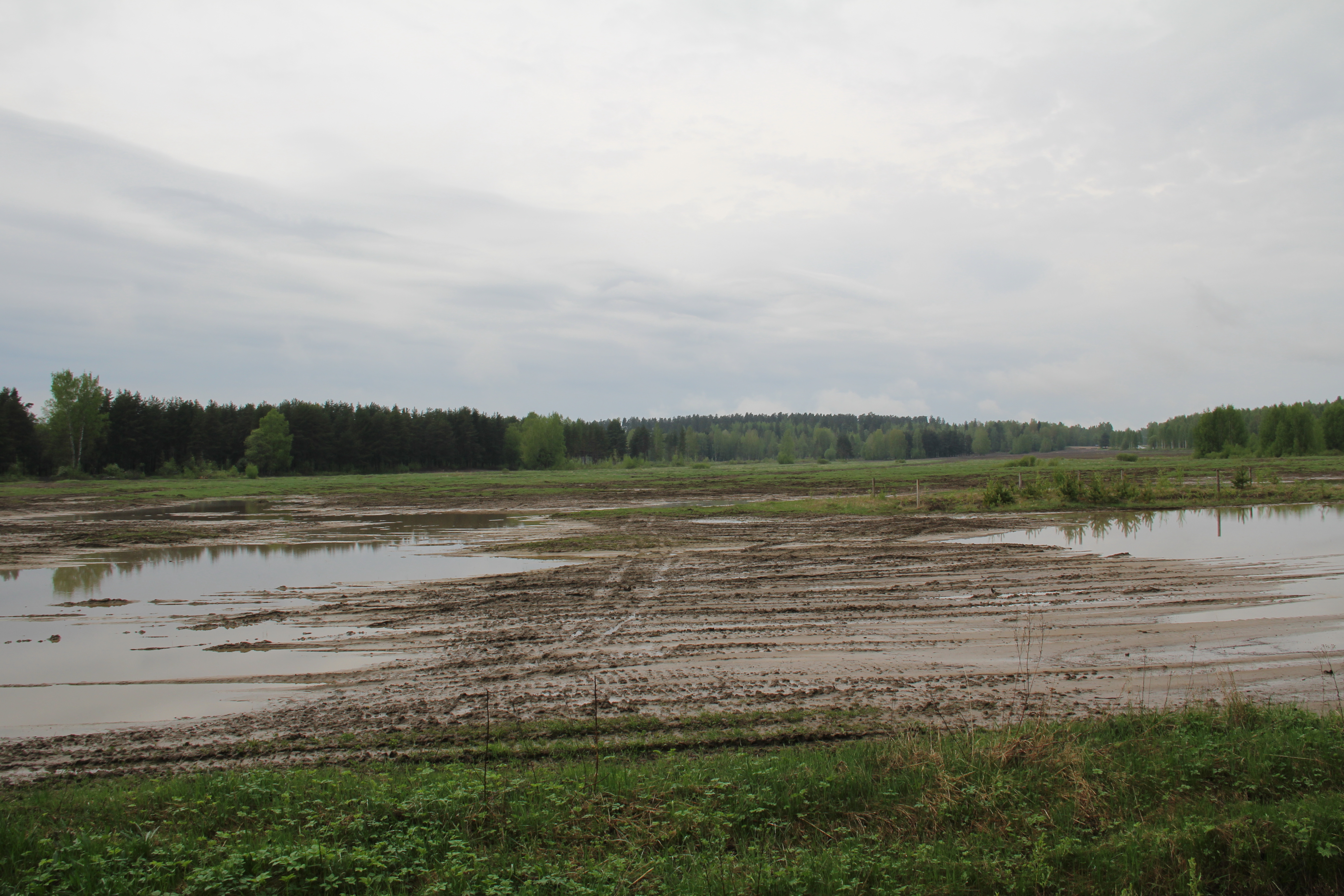 Parolannummi tank training area, Hattula, Finland.